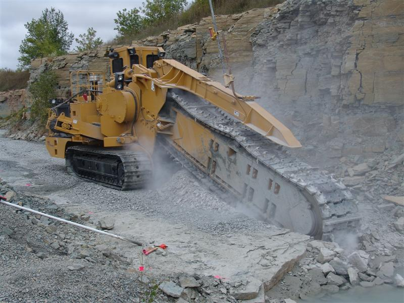 Test run of a Tesmec M5 Mechanical trencher near Seymour, WI in Sept. 2006.